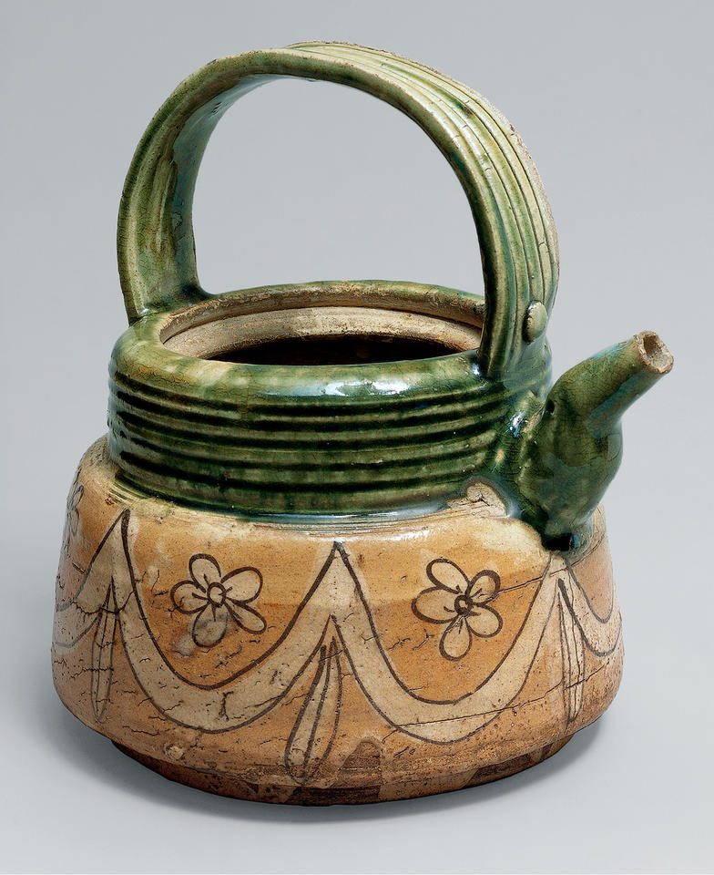 Japan; Ewer; Ceramics